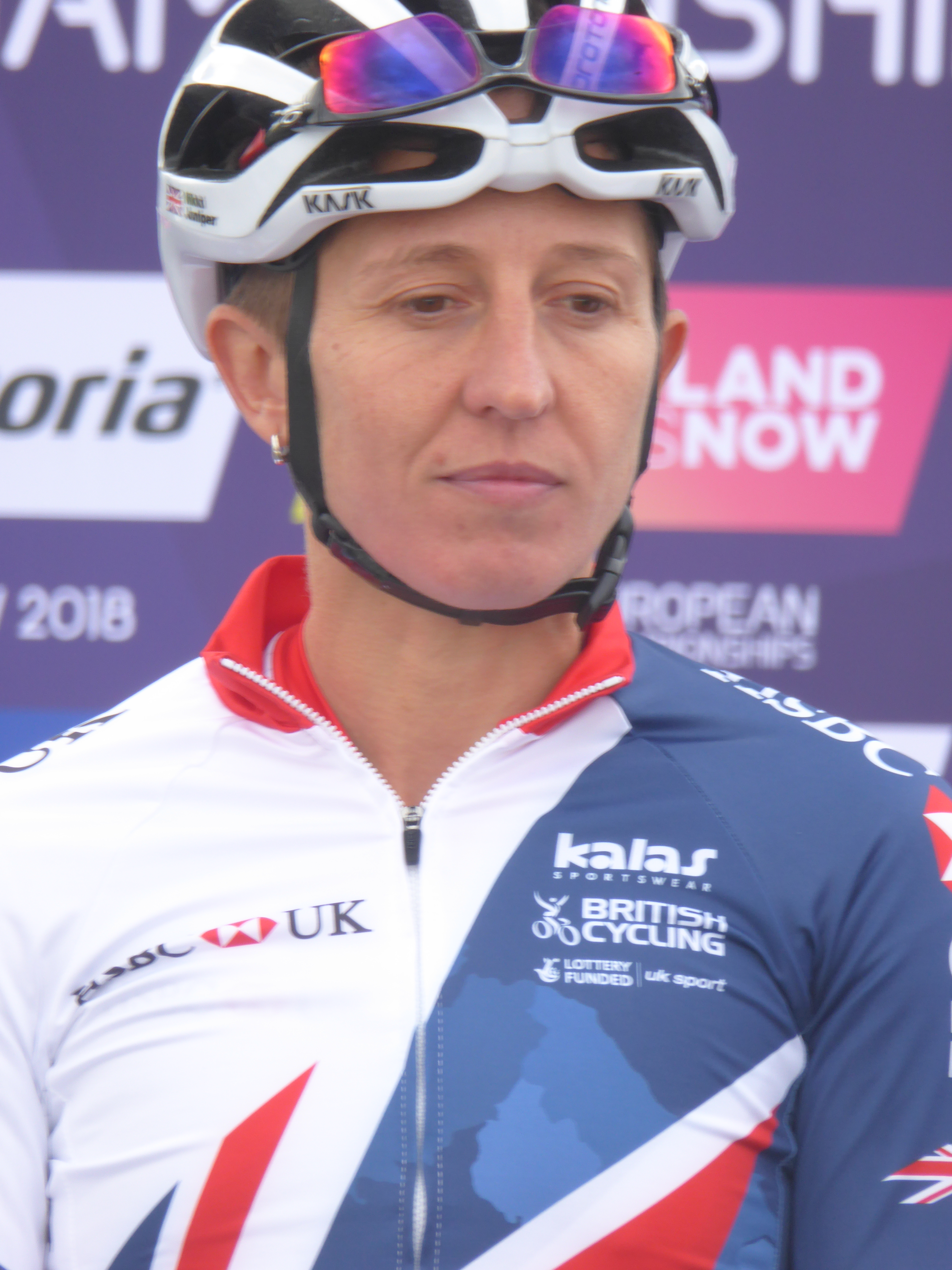 Nikki Juniper (Great Britain), prior to the women's road race at the 2018 UEC European Road Cycling Championships in Glasgow.